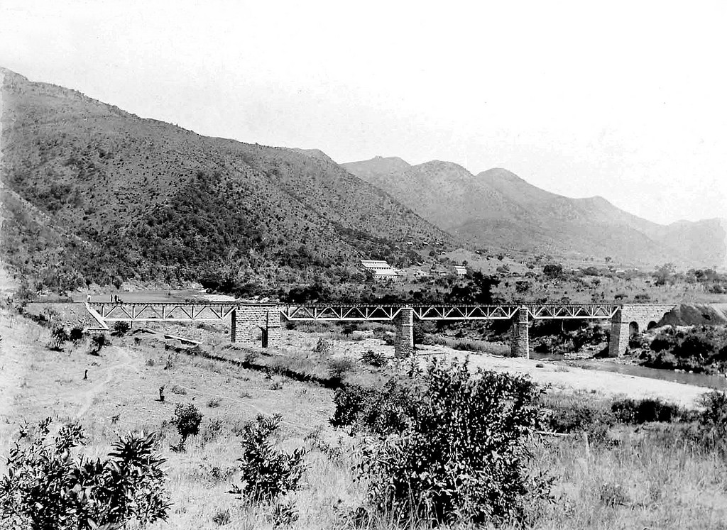 Avoca Bridge on the Kaapmuiden to Barberton branch line, built in 1895